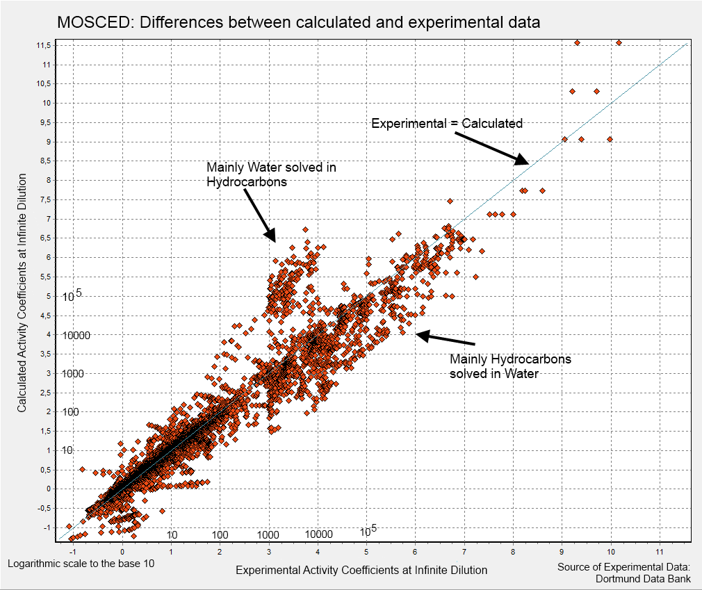 Deviation chart - Experimental vs. predicted activity coefficients at infinite dilution; Prediction with MOSCED